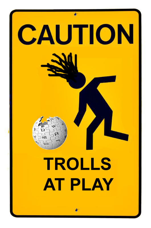 "Wikipedia troll at play" sign, based on a yellow "Children at Play" sign that symbolizes a child kicking a ball. The ball was replaced by a Wikipedia globe, and the child's head was decorated with unruly "hair" reminiscent of troll dolls.